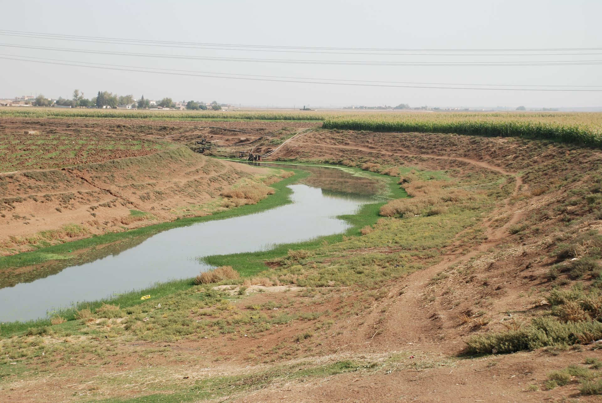 Khabur river, Syria, near Tell Halaf, Ras al-Ain